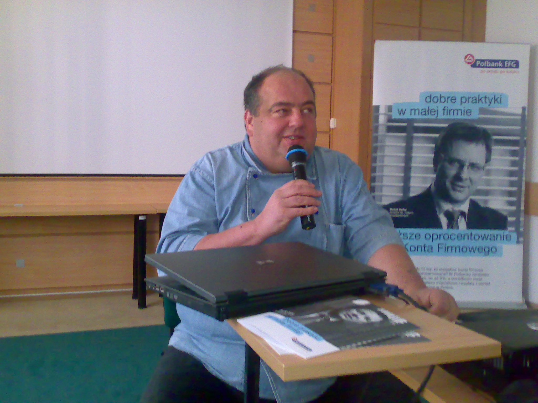 Maciej Kuroń on conference in Konin